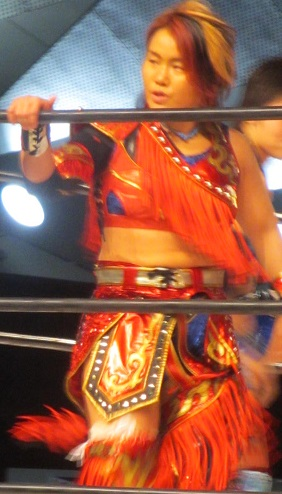 Japanese professional wrestler,Sonoko Kato. Apr 9 2016, OZ Academy Yokohama International Passenger Terminal Hall.